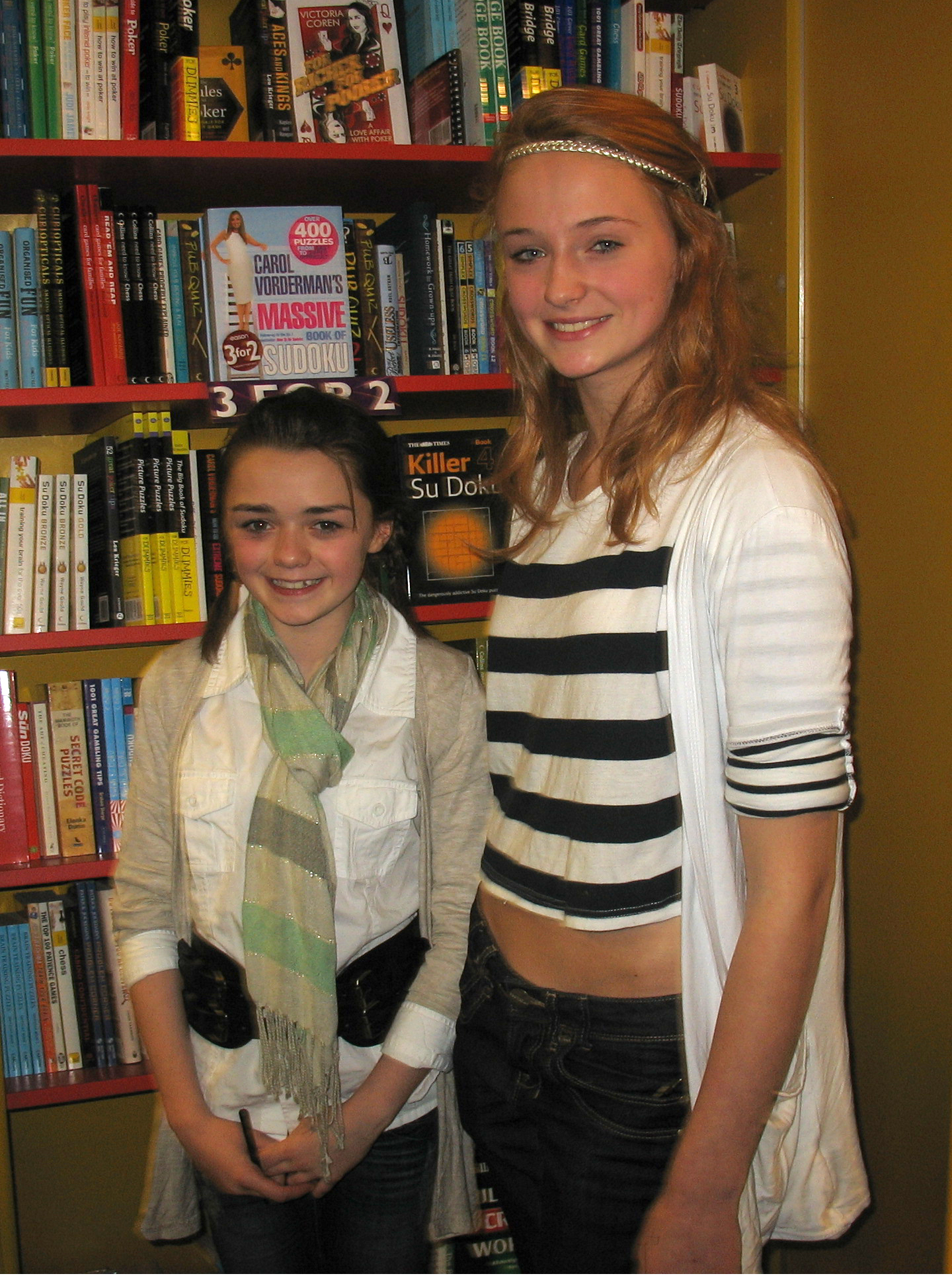 Maisie Williams (Arya Stark) and Sophie Turner (Sansa Stark) at the GRRM Easons Book signing Belfast 3rd Nov 2009, which was followed by an evening event called Moot 1 organised by the Brotherhood Without Banners (ASoIAF fandom)